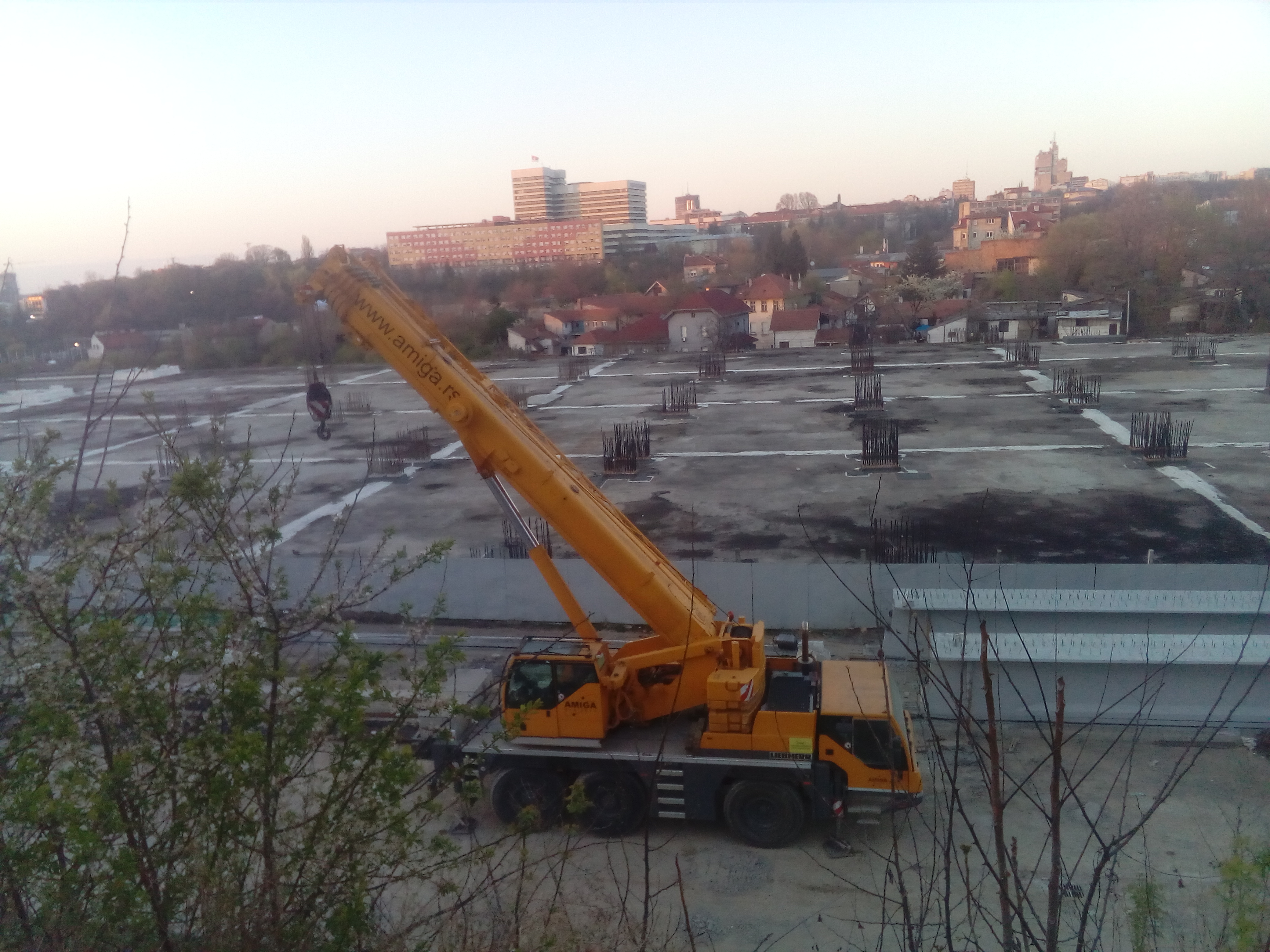 Crane near Prokop railway station